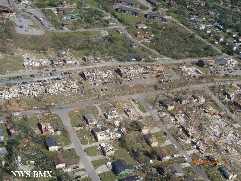 Major damage to homes and apartments in Pratt City, AL.